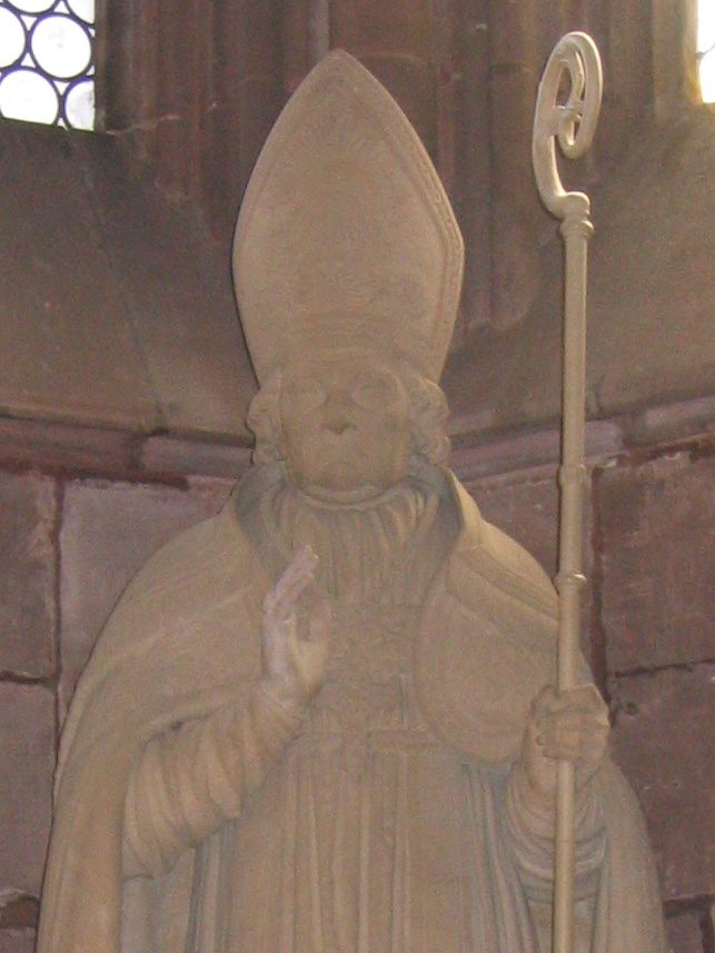 Stone sculpture of the first archbishop of Freiburg, Dr. Bernhard Boll (1857-1836) at [Freiburg Münster